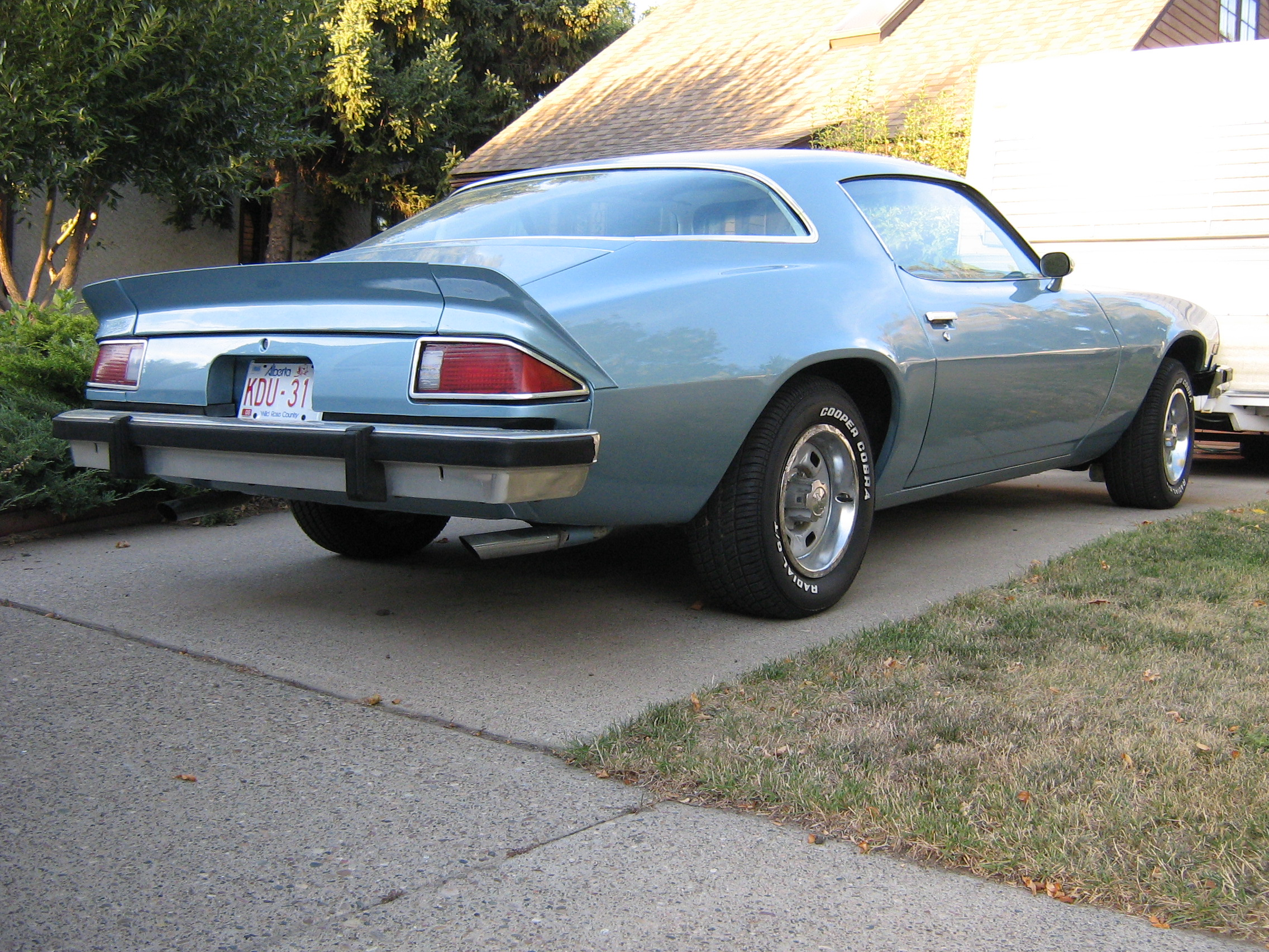 Mid 70s.